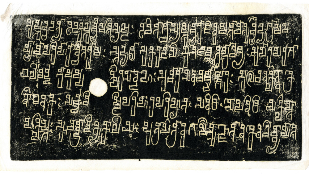 Tirodi copper-plate charter of Pravarasena II, third plate